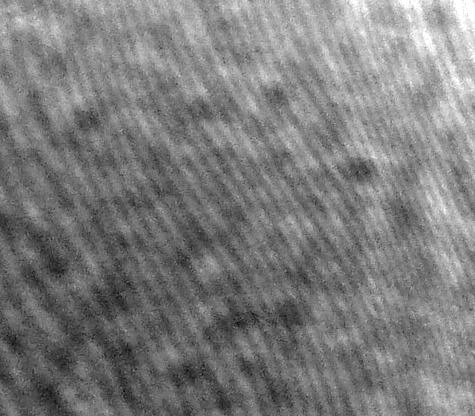 A transmission hologram which was recorded on photographic emulsion